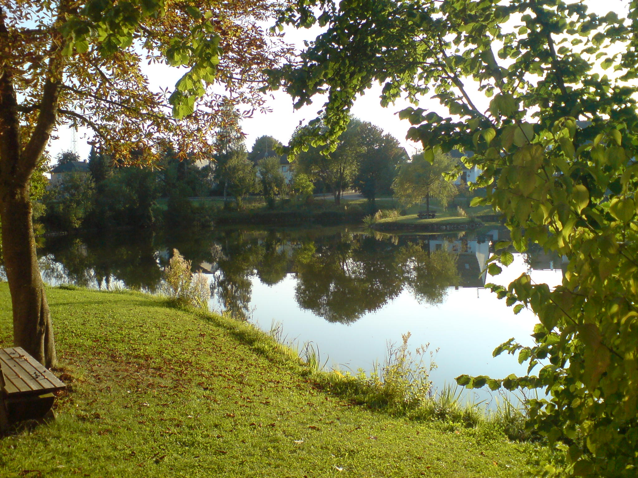 Lake Limbach